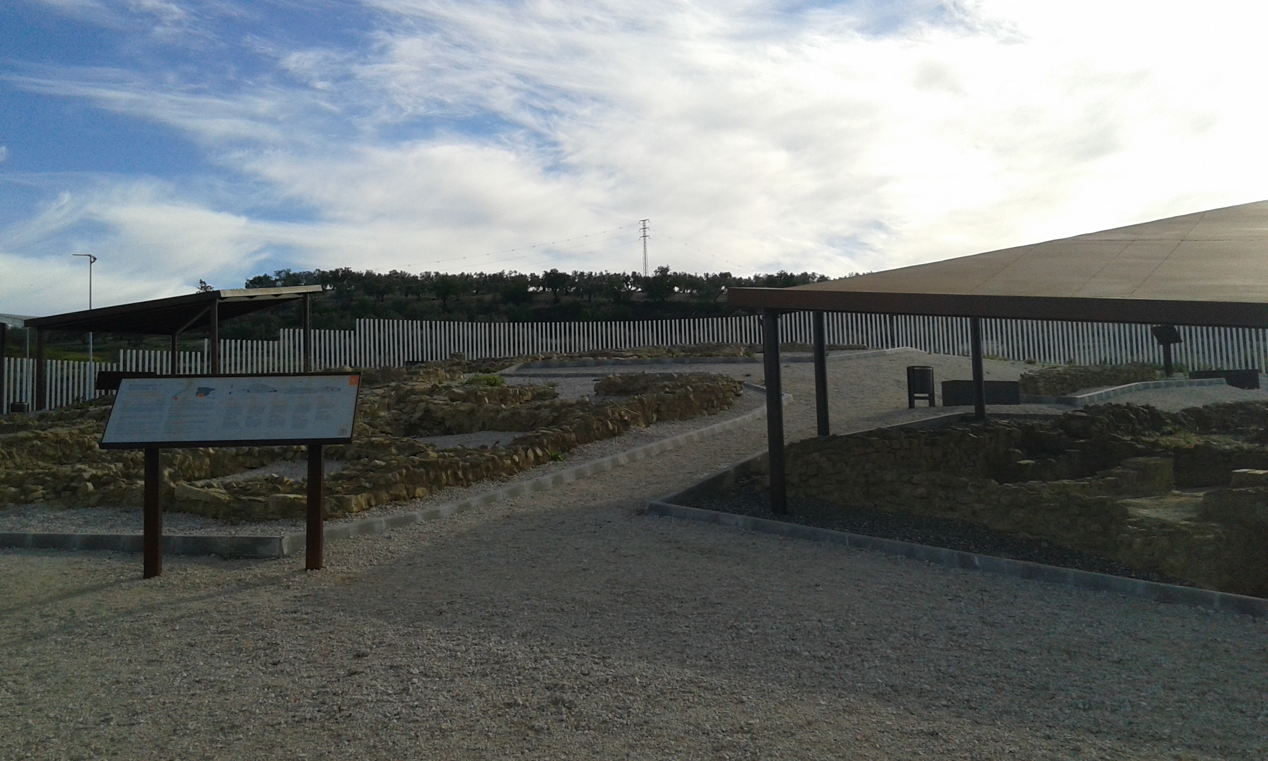 Roman Villa of 'Cortijo Robledo', located next to the gas station on the AP-46 road, municipality of Antequera, Malaga, Spain